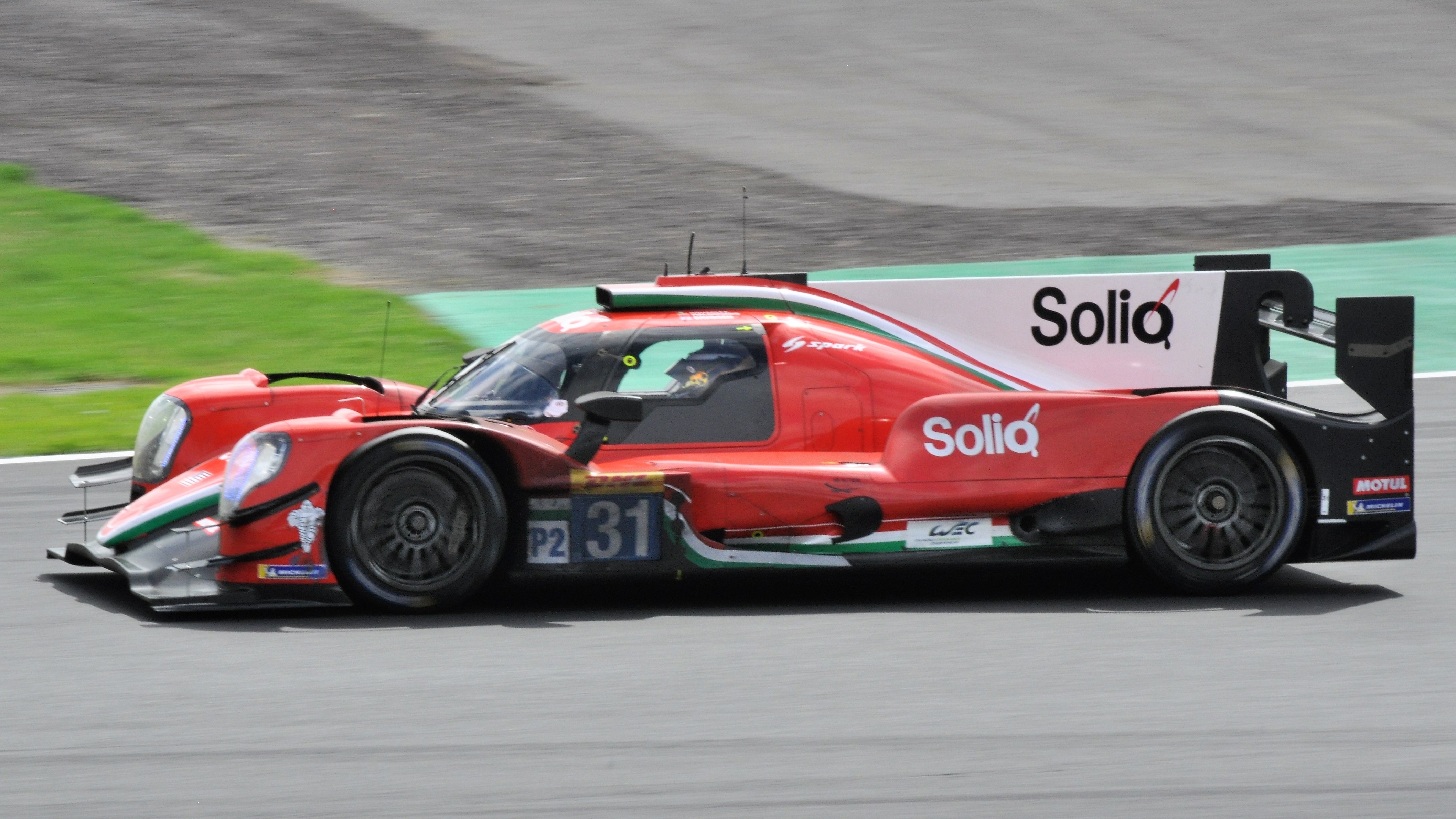 Venezuelan driver Pastor Maldonado turns the number 31 DragonSpeed-entered Oreca 07 into Village corner in the 2018 6 Hours of Silverstone race. Maldonado and his co-drivers, Mexican Roberto Gonzalez and British driver Anthony Davidson, finished fourth in the LMP2 class.